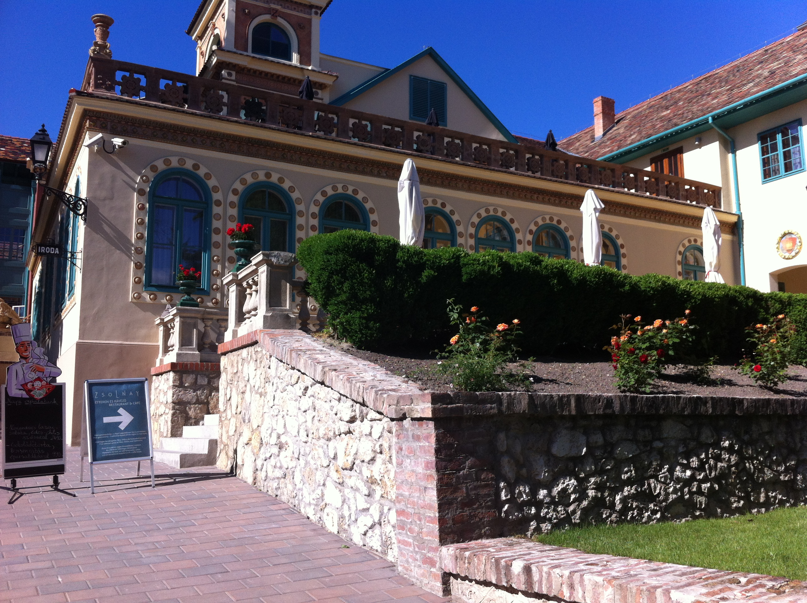 Building in Zsolnay quarter